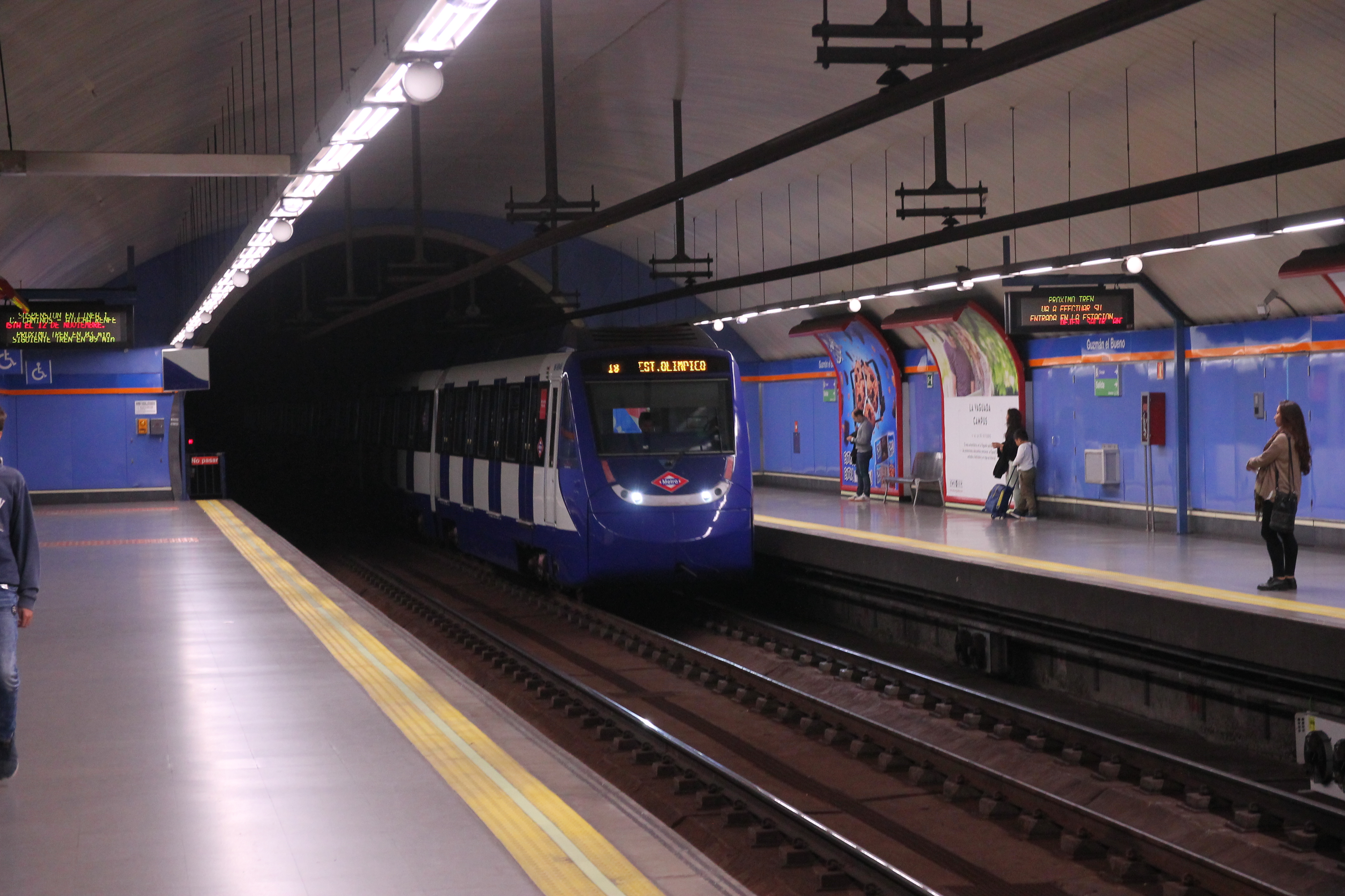 Platform of the Guzmán el Bueno metro station, line 6, Madrid, tren serie 9000